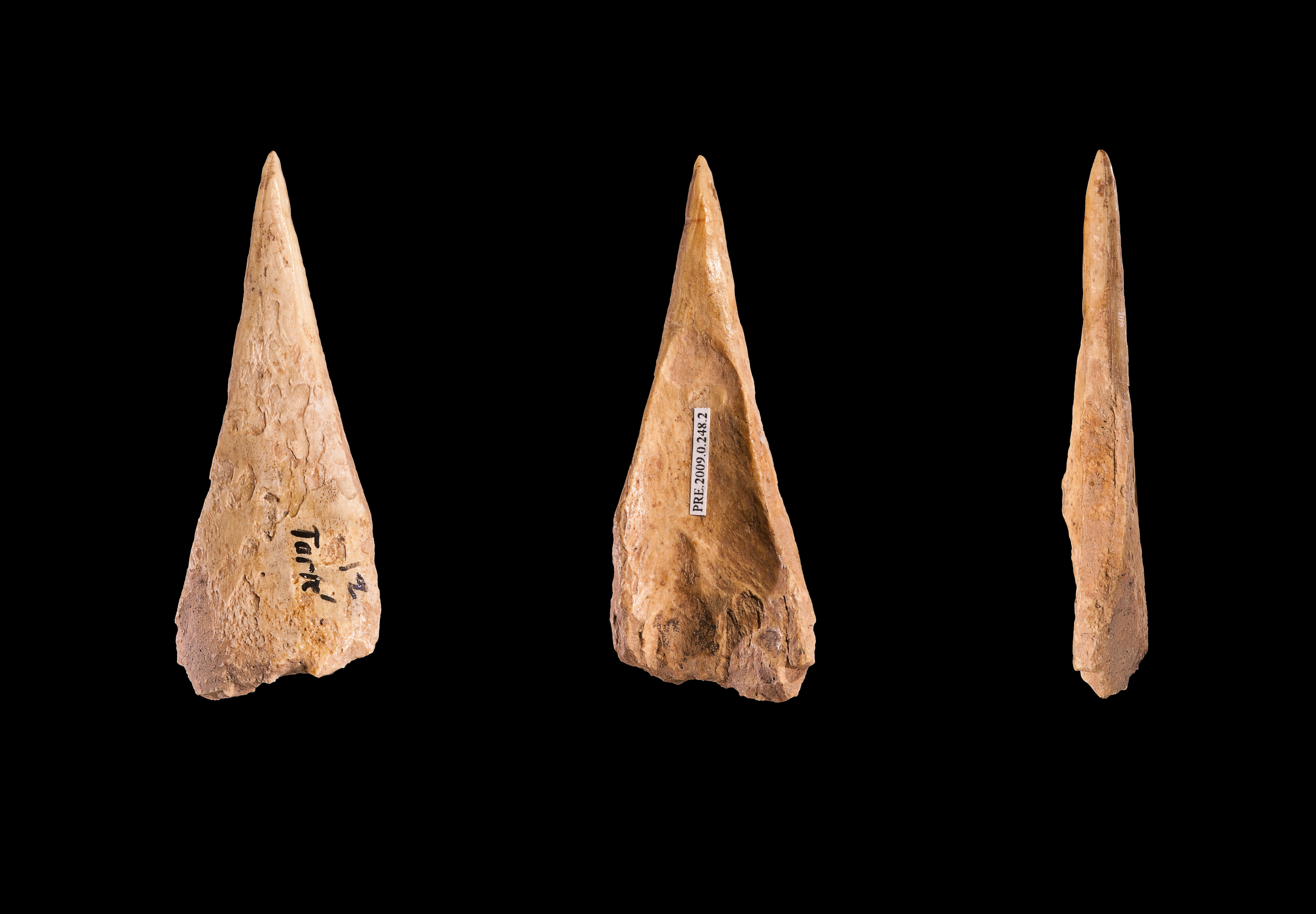 Awl on bone sliver - Different views of the same specimen